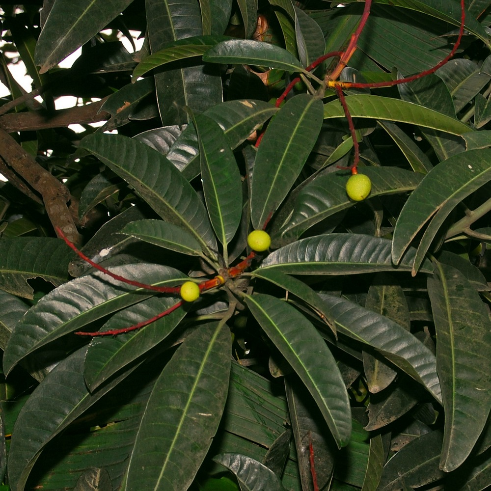 Mangifera foetida, inflorescence w/ young fruit. Pandeglang, Banten (west Java), Indonesia